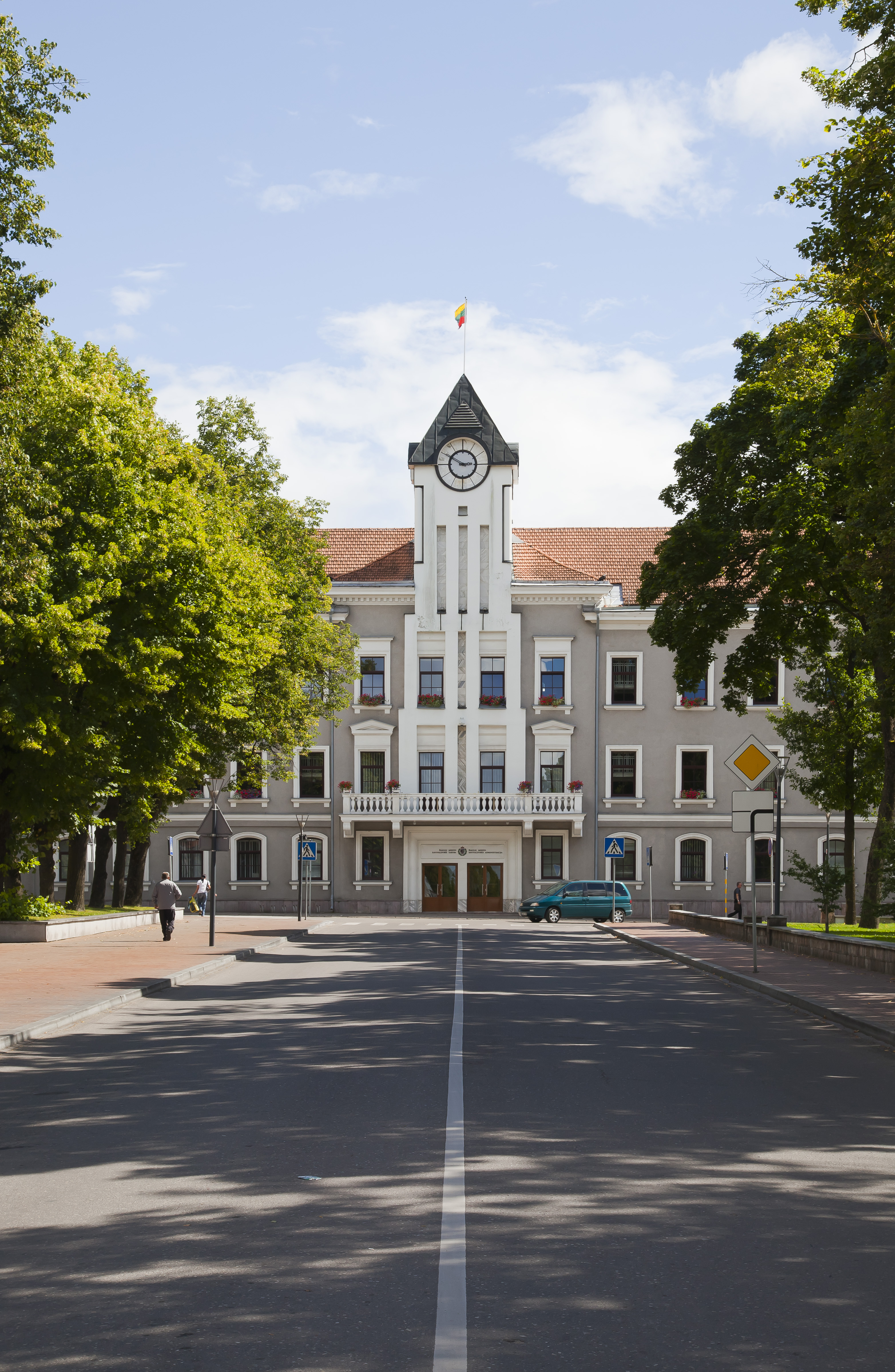 Town hall in Siauliai, Lithuania